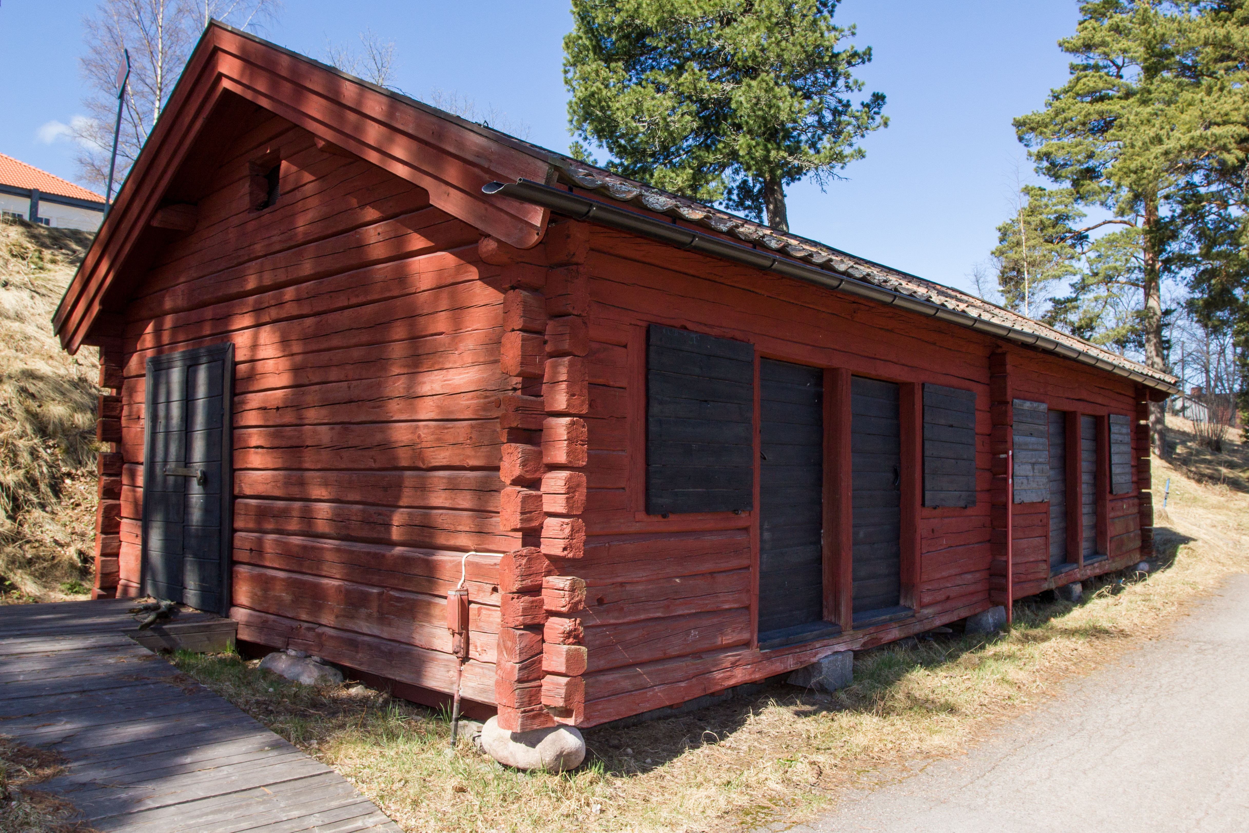 Linboden, used as flax merchant booth, at local heritage centre Hedemora gammelgård, Sweden.